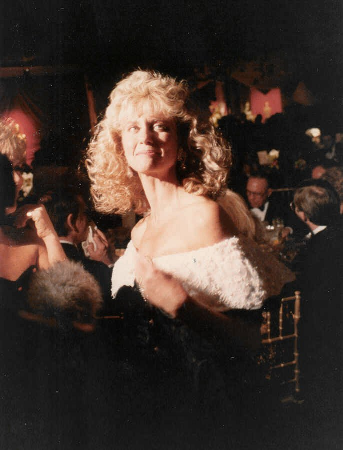 Olivia Newton-John at 61st Academy Awards 3/29/89